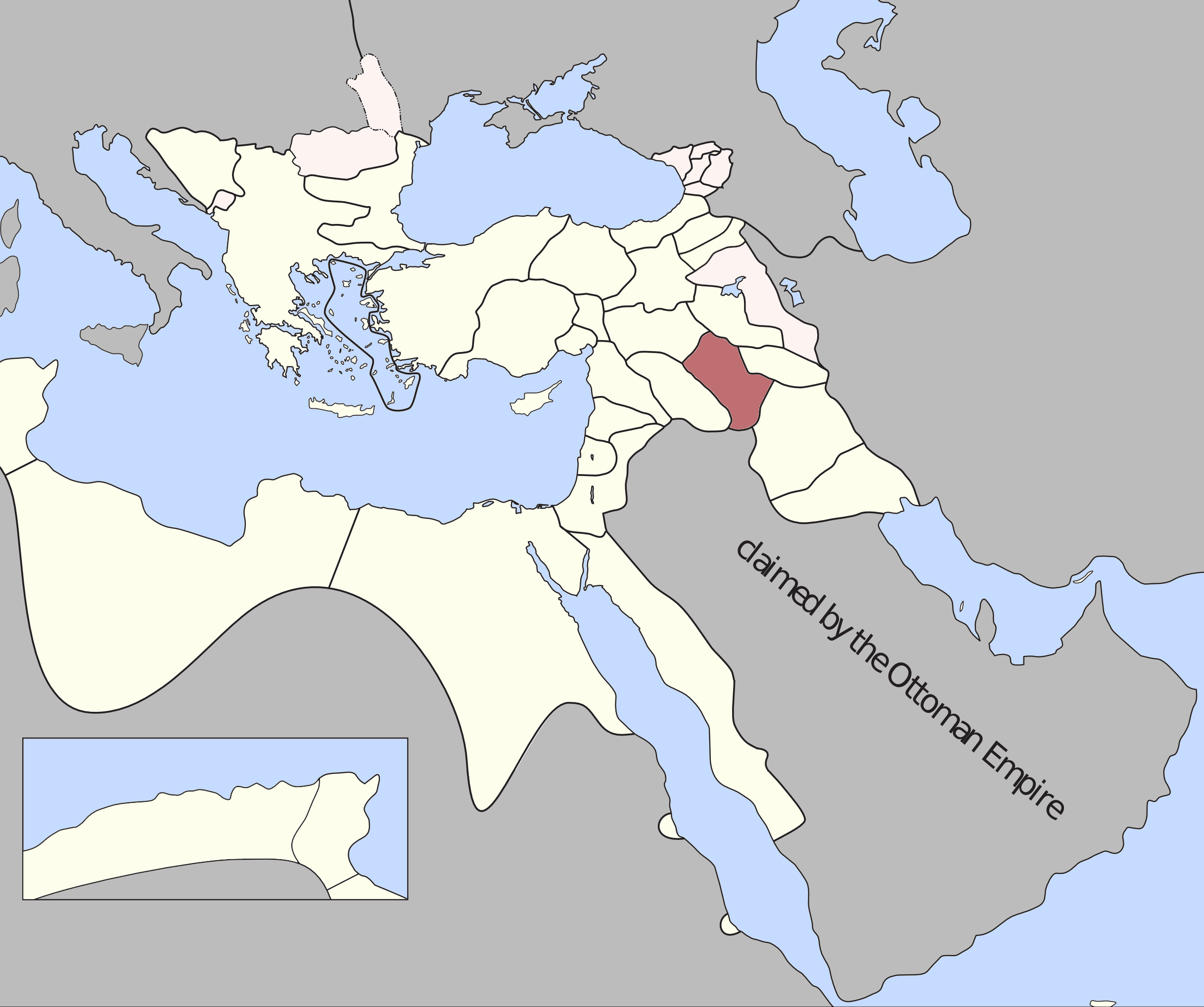 XY Eyalet, Ottoman Empire (1795). Source: A Brief History of the Late Ottoman Empire at Google Books By M. Sukru Hanioglu, Figure 1